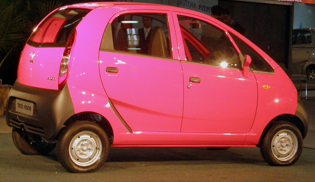 Tata Nano -- 2500$ Car Launched In Auto Expo 2008 in NewDelhi.